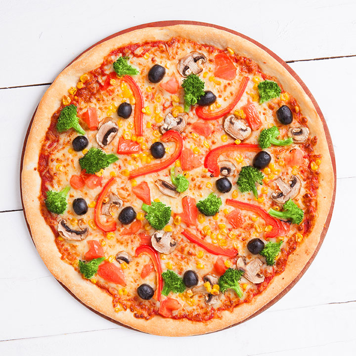 Typical pizza vegetariana - view from the top.